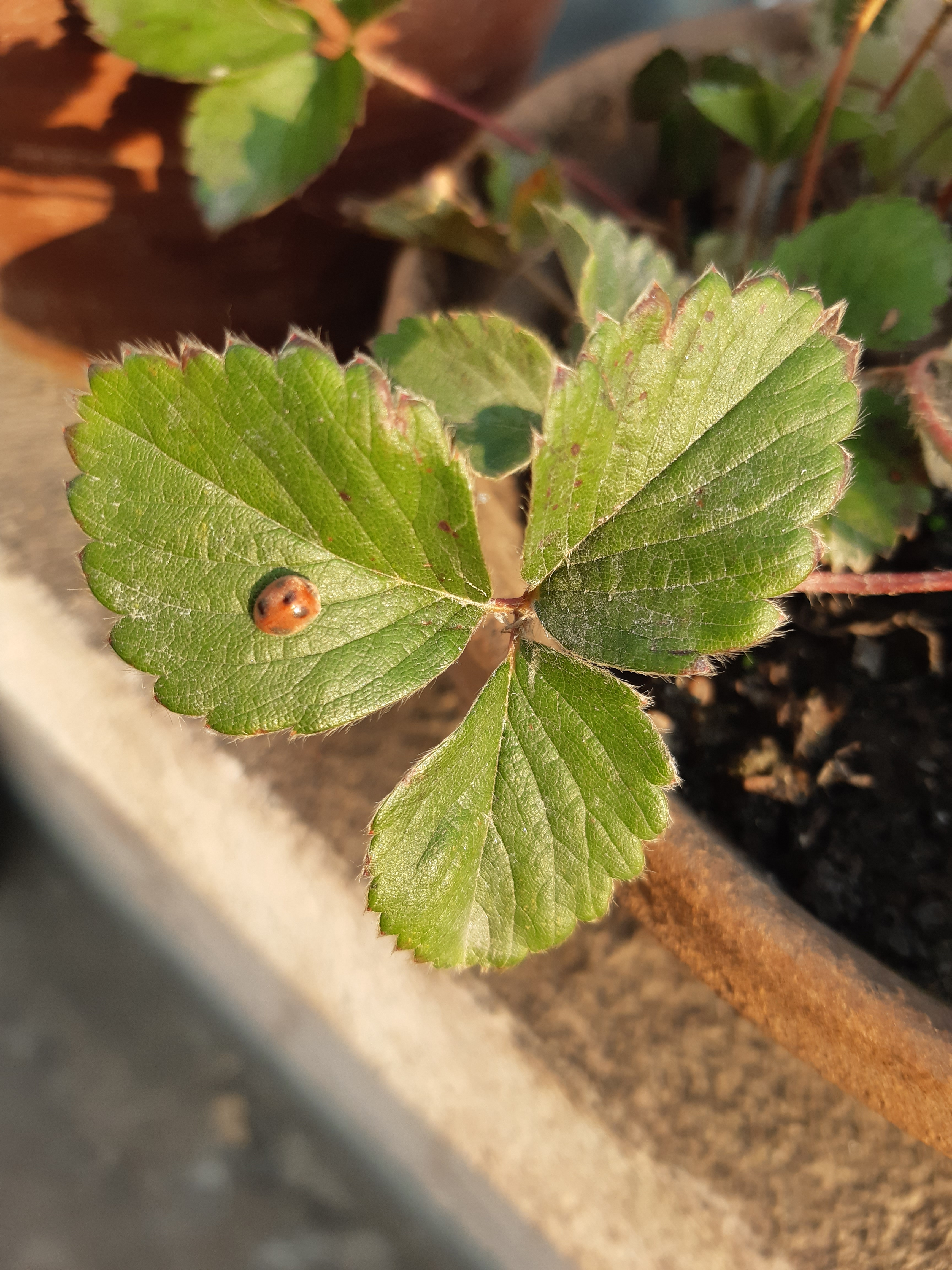 Ladybug on a strawberry plant